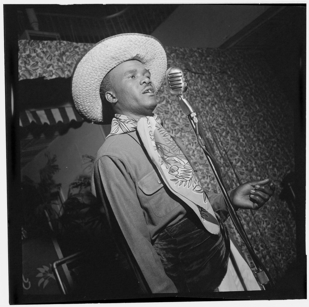 Lord Invader [Portrait of Calypso, between 1938 and 1948] 1 negative : b&w ; 2 1/4 x 2 1/4 in. Notes: Gottlieb Collection Assignment No. 355 Purchase William P. Gottlieb Forms part of: William P. Gottlieb Collection (Library of Congress). Subjects: Calypso musician Calypso musicians--1930-1950. Format: Portrait photographs--1930-1950. Film negatives--1930-1950. Rights Info: Mr. Gottlieb has dedicated these works to the public domain, but rights of privacy and publicity may apply. Repository: (negative) Library of Congress, Prints & Photographs Division, Washington D.C. 20540 USA, Part Of: William P. Gottlieb Collection (DLC) 99-401005 General information about the Gottlieb Collection is available at Persistent URL: Call Number: LC-GLB23- 1025